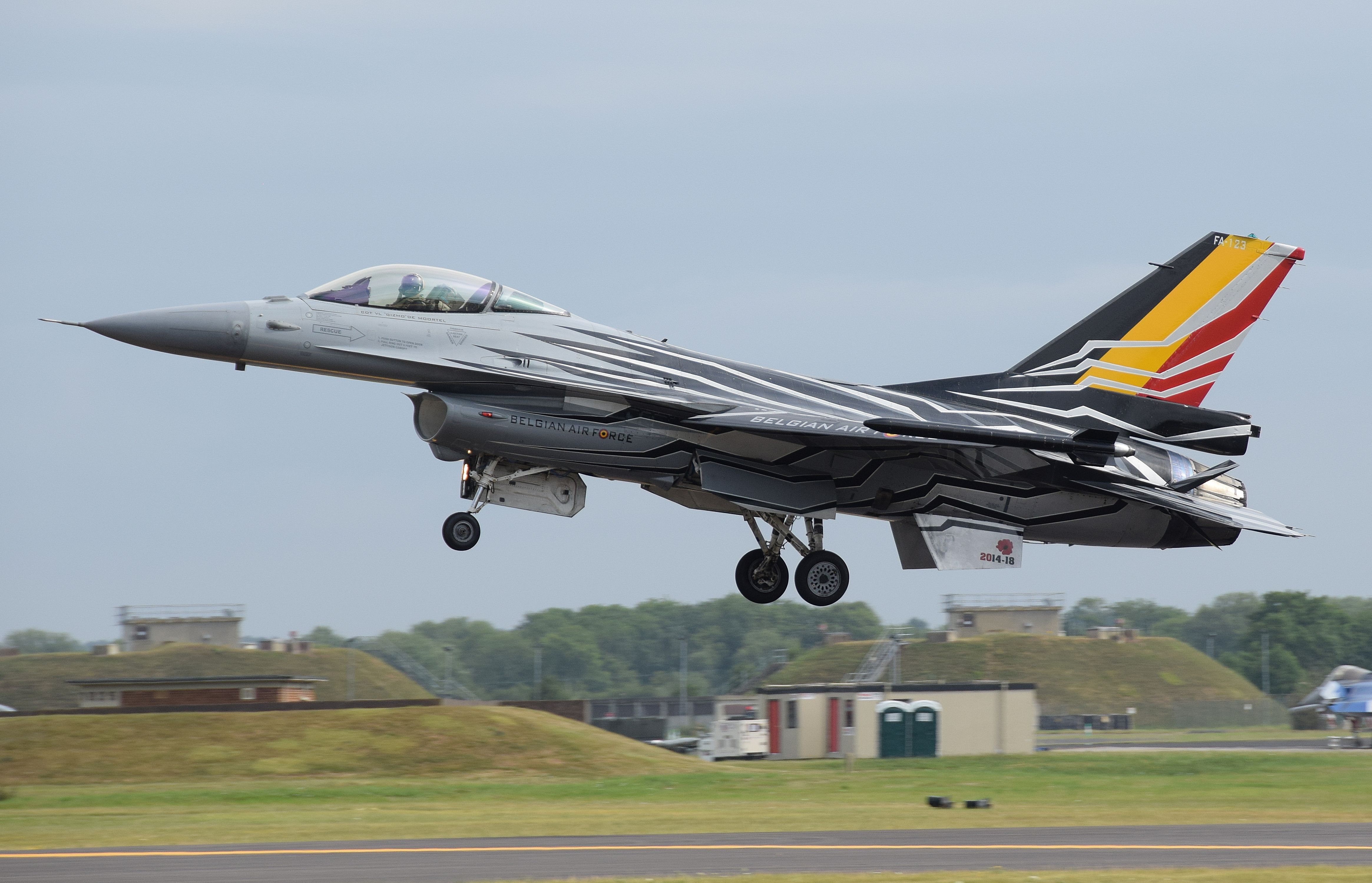 Lockheed Martin F-16AM Fighting Falcon (FA-123) of the Belgian Air Component arrives at the 2017 Royal International Air Tattoo, RAF Fairford, England. This aircraft is in the 2015-2017 display scheme.